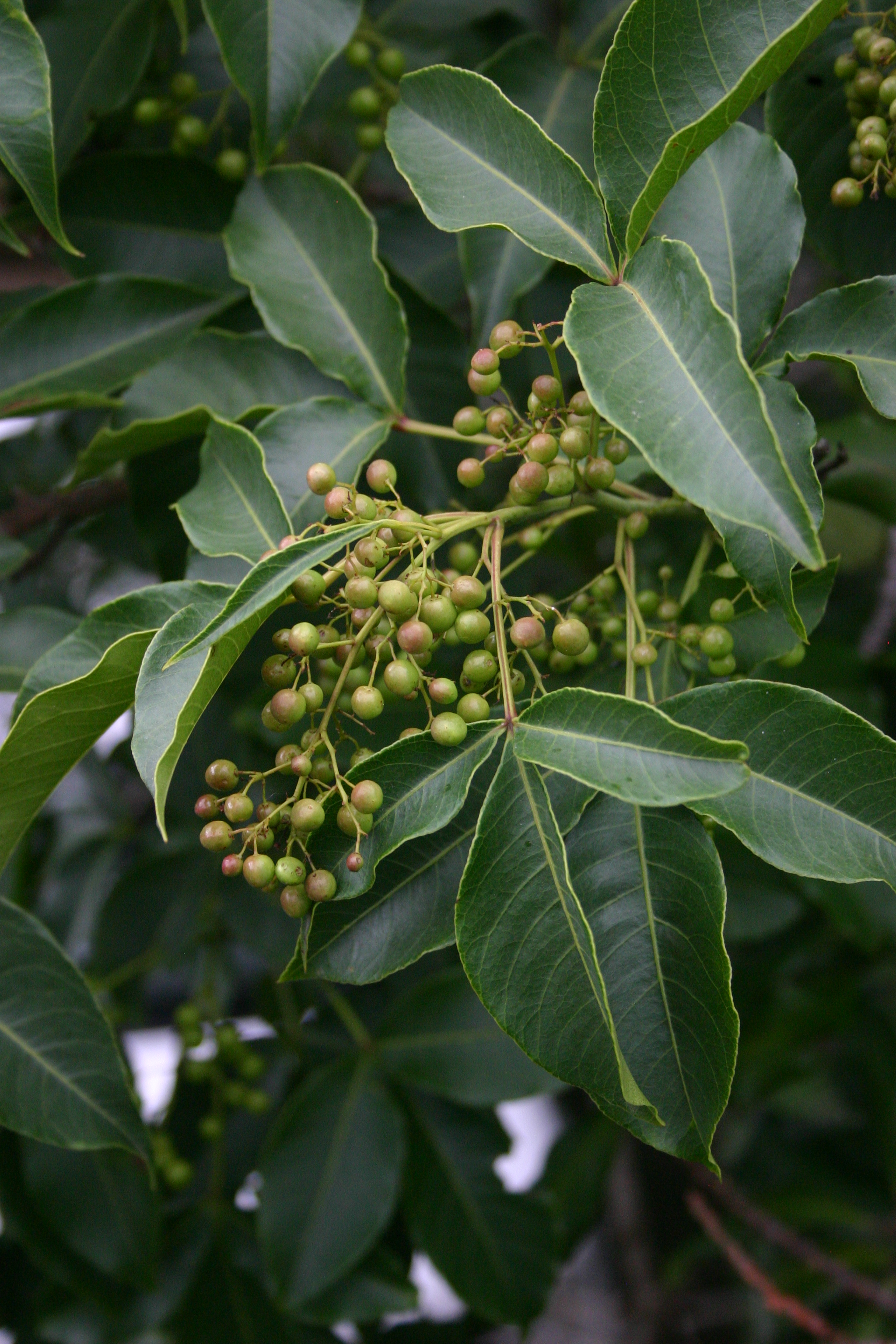 Fruit and foliage of Searsia chirindensis, Nature's Valley, South Africa